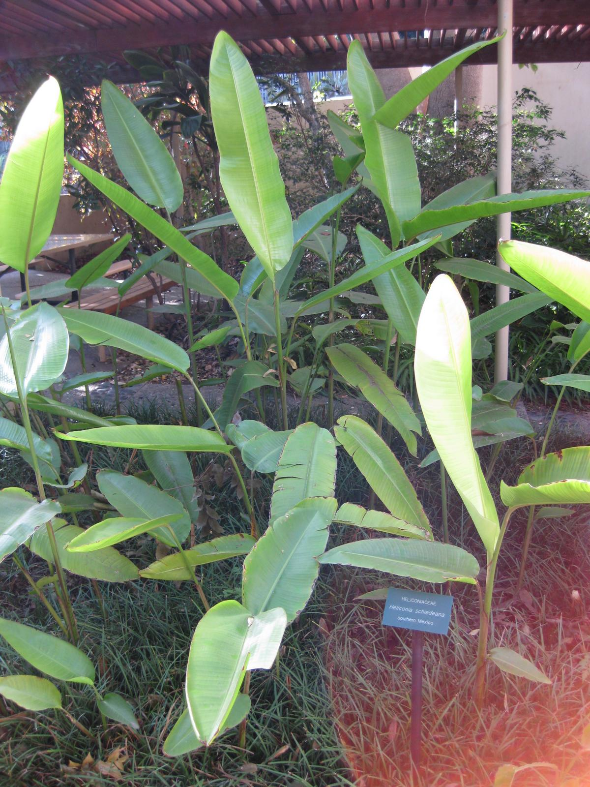 Heliconia species Photographed at Mildred E. Mathias Botanical Garden at UCLA, Westwood, (Los Angeles, California) - in November.